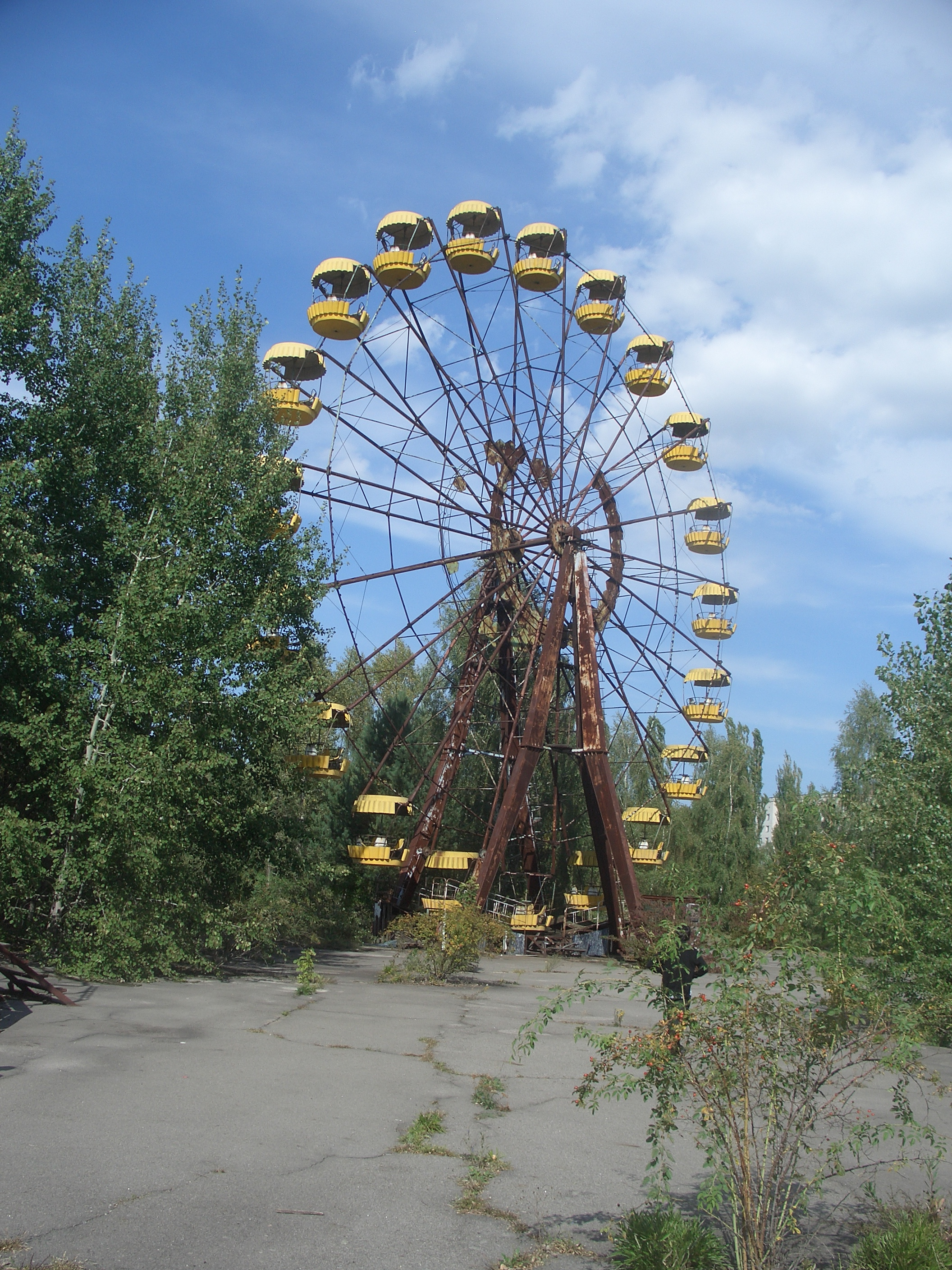 The Ferris wheel, Pripyat amusement park, Chernobyl exclusion zone.